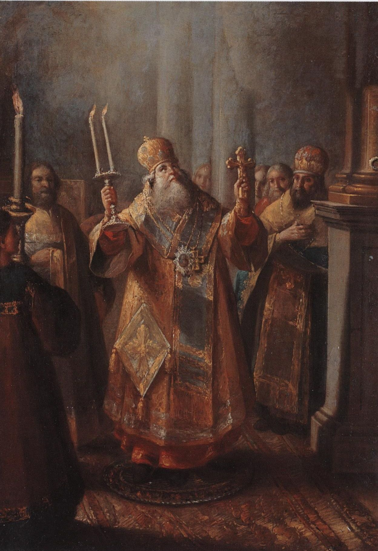 The bishop serving Divine Liturgy, Tretyakov Gallery